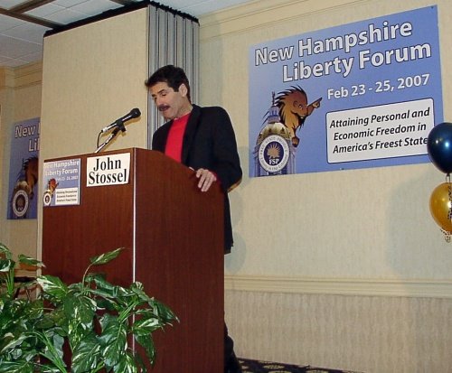 John Stossel at the 2007 New Hampshire Liberty Forum